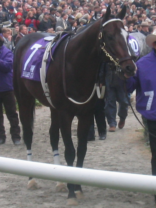 Lost in the Fog, prior to the Breeders' Cup Sprint on 2005 October 29. The horse is wearing a stallion chain which would be used to assist in leading and loading him into the starting stalls. This photo was taken by David W. Hogg from the paddock at Belmont Park. David W. Hogg licenses this for use under the GFDL. ブリーダーズカップ・スプリント出走時のロストインザフォグ（2005年10月29日） David W. Hogg氏よりGFDL条件下で提供されています。